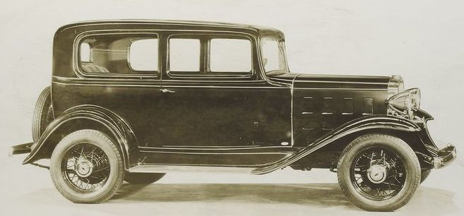 Chevrolet 1932 Standard 2-Door Coach Digital ID: 481788 Source: Photographs of General Motors and Chrysler car and truck models, 1902 - 1938. / General Motors Company. Chevrolet - Pontiac 1912 - 1938 Photographs. Chevy ( Repository: The New York Public Library. Science, Industry and Business Library. General Collection Division. See more information about and others at Persistent URL: Rights Info: No known copyright restrictions; may be subject to third party rights (for more information